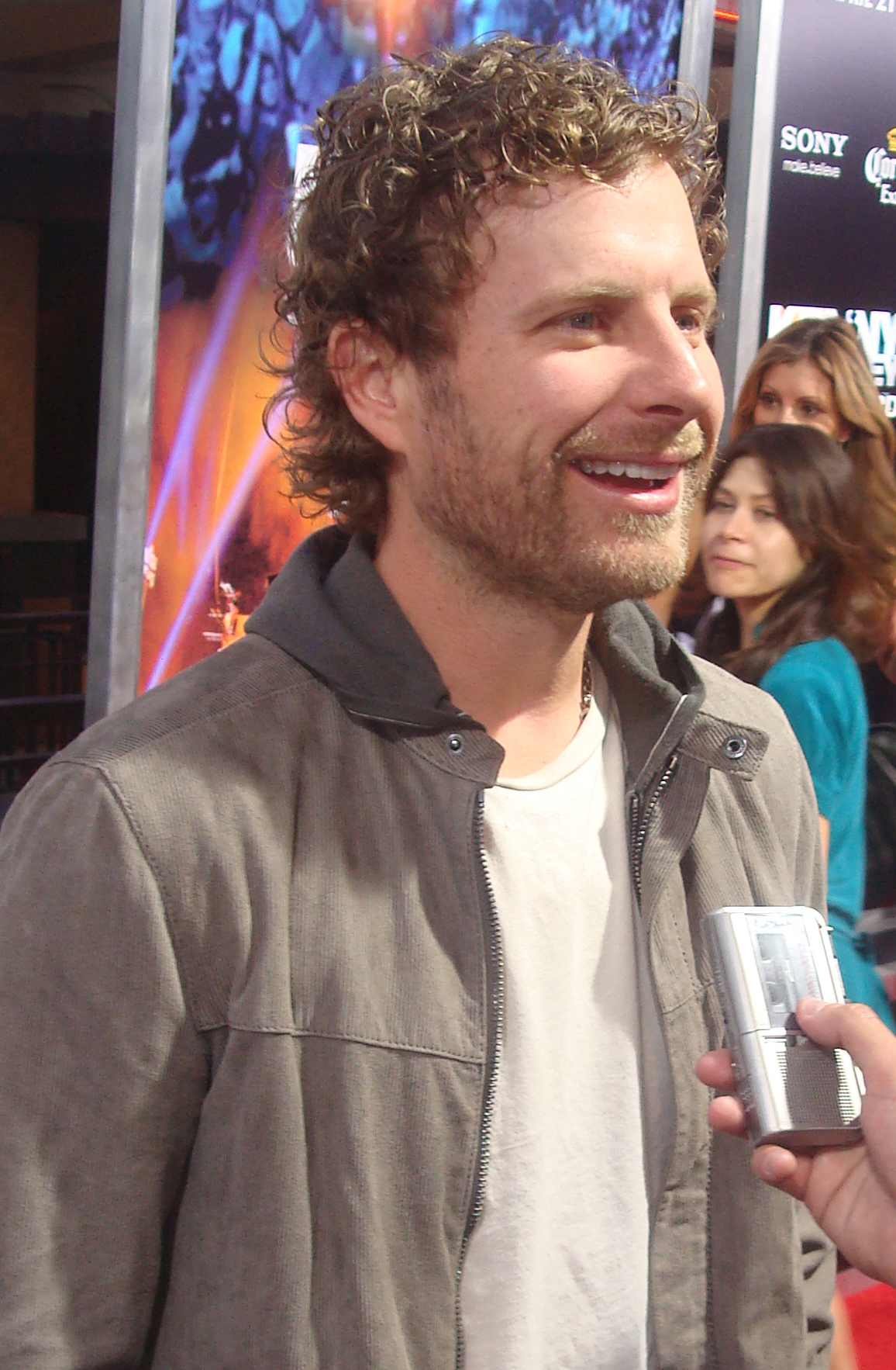 Dierks Bentley at a film premiere for Kenny Chesney: Summer in 3D.